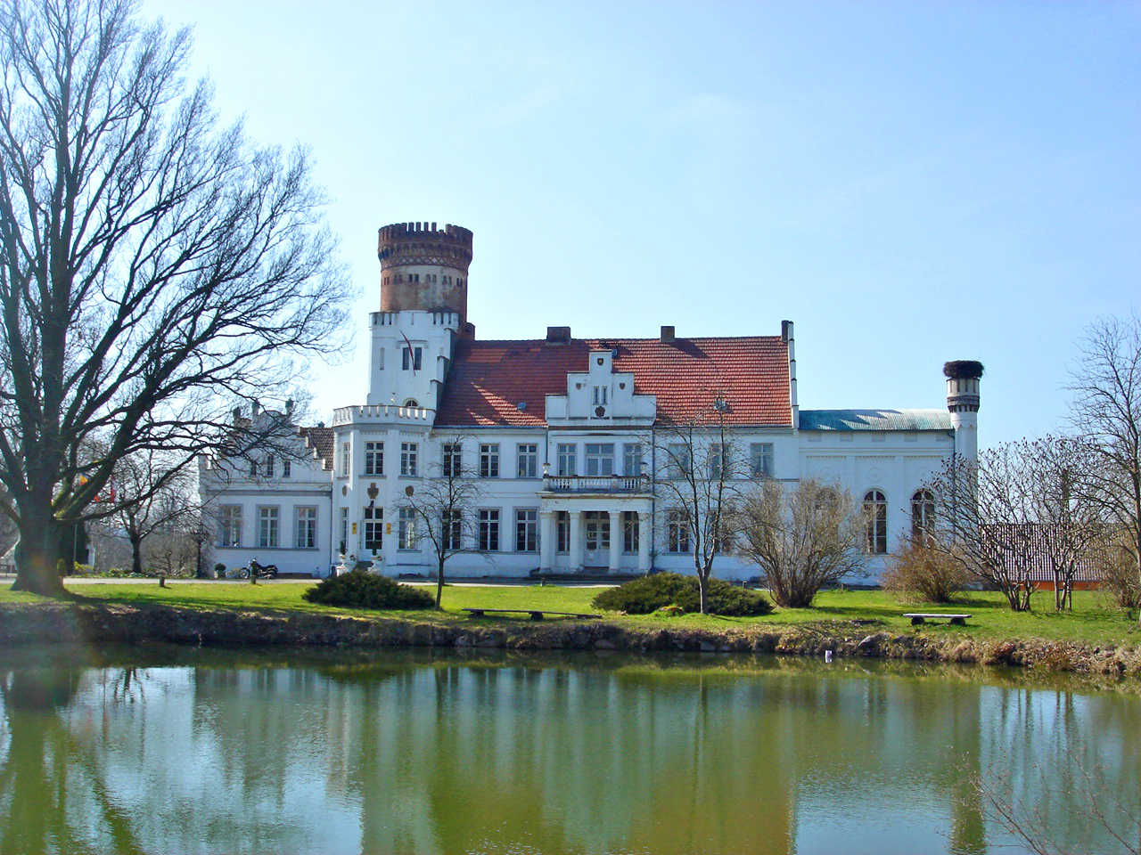 Historicist Castle Wrodow in Mölln near Neubrandenburg in Mecklenburg-Vorpommern, Germany. Built in 19th century, most probably on a baroque base.